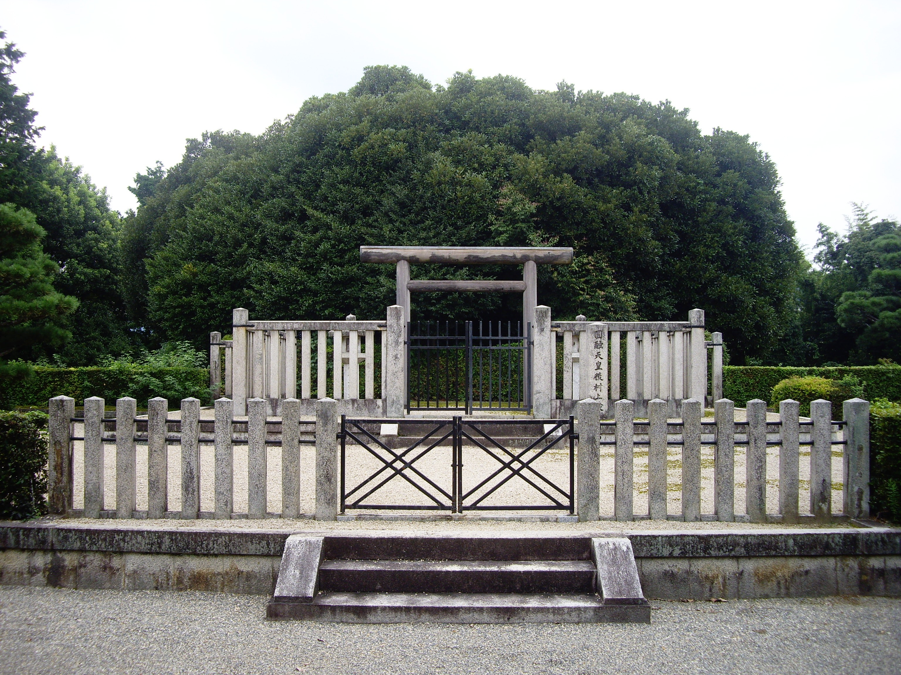 The Mausoleum of Emperor En'yū, in Ukyō-ku, Kyoto, Kyoto Prefecture, Japan